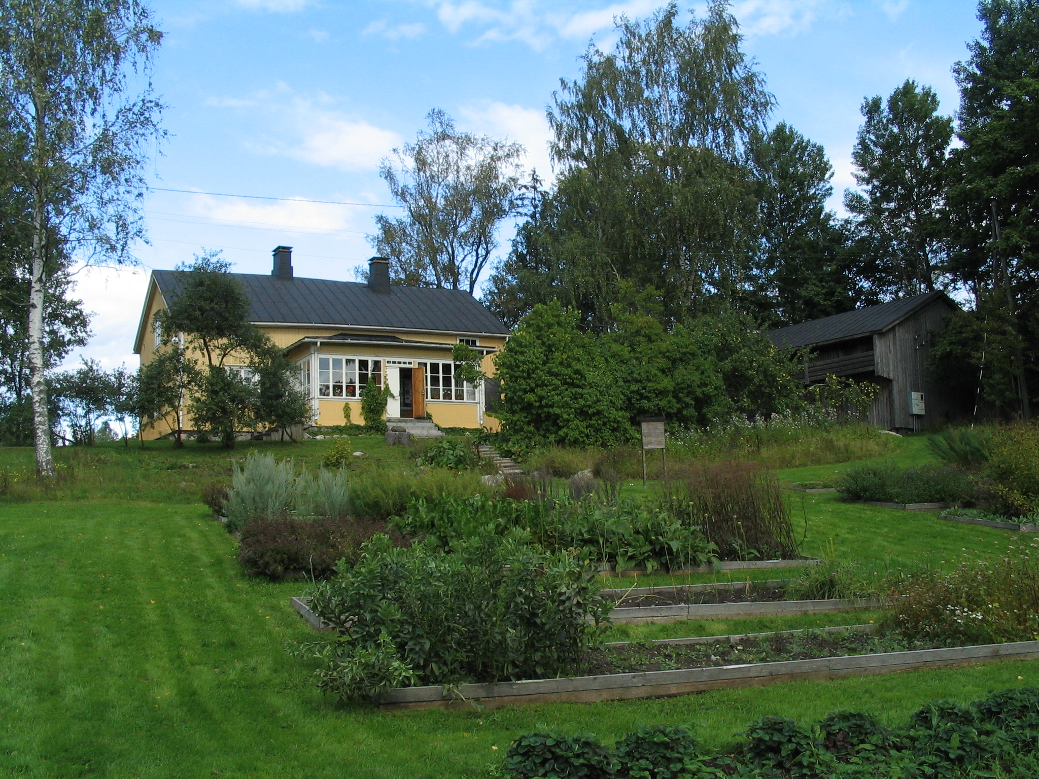 Ragvalds, a farm museum with garden in Kirkkonummi, Finland.